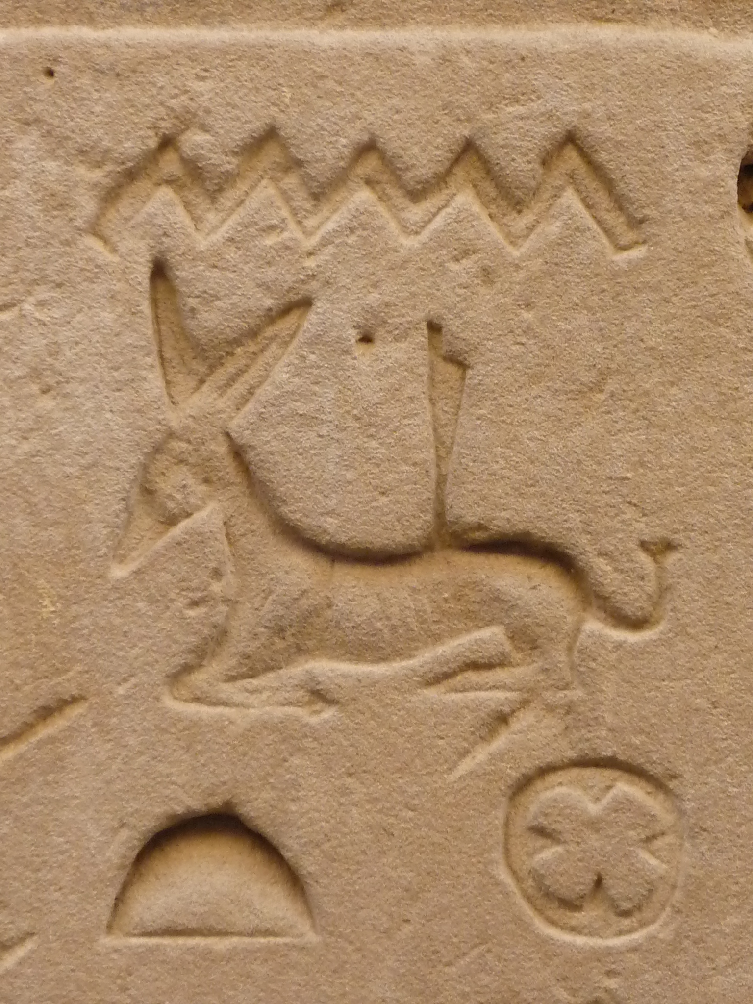 Wall relief of Seth, temple of Edfu, Egypt